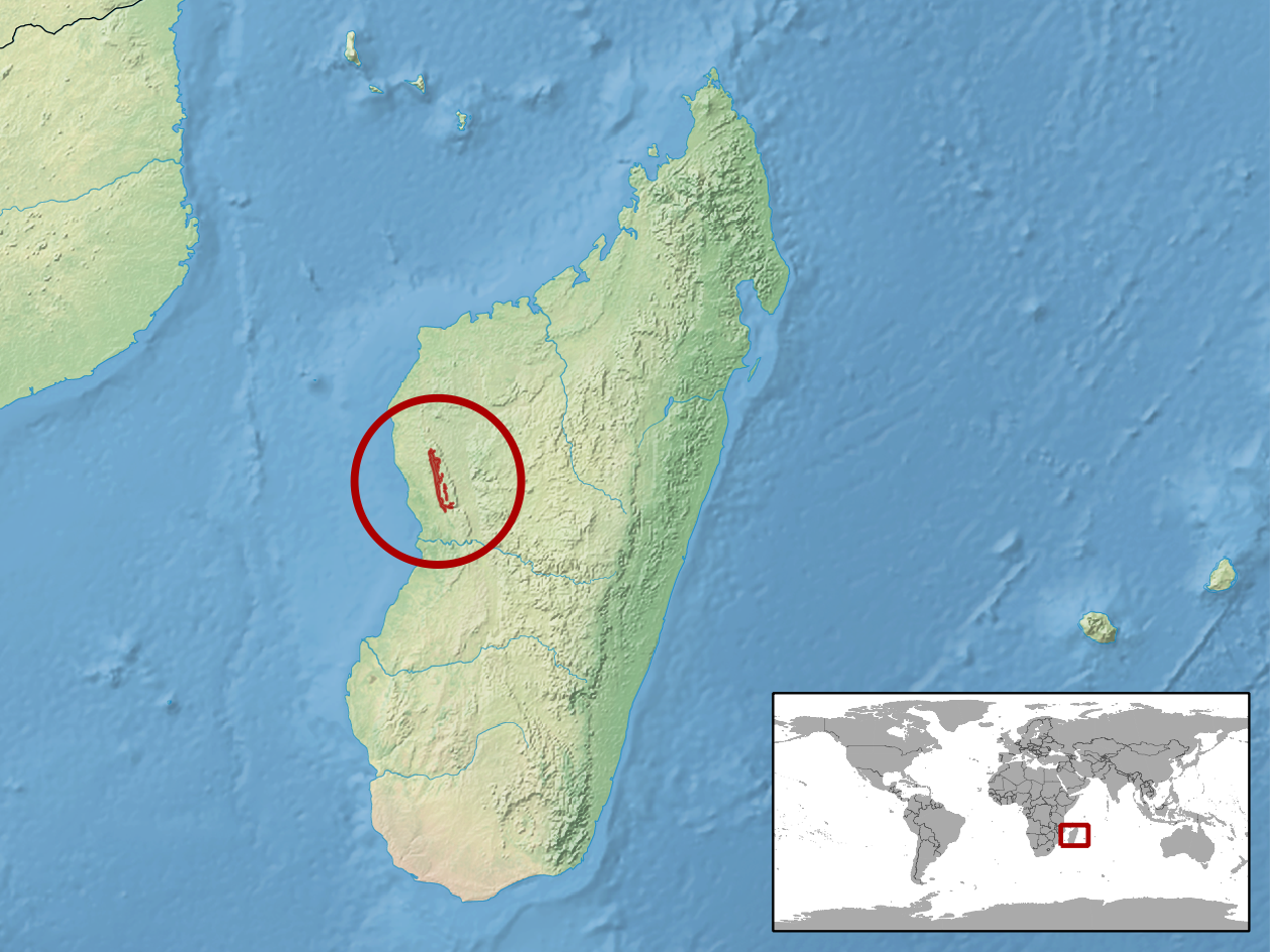 geographic distribution of Lygodactylus klemmeri (Native: Madagascar)